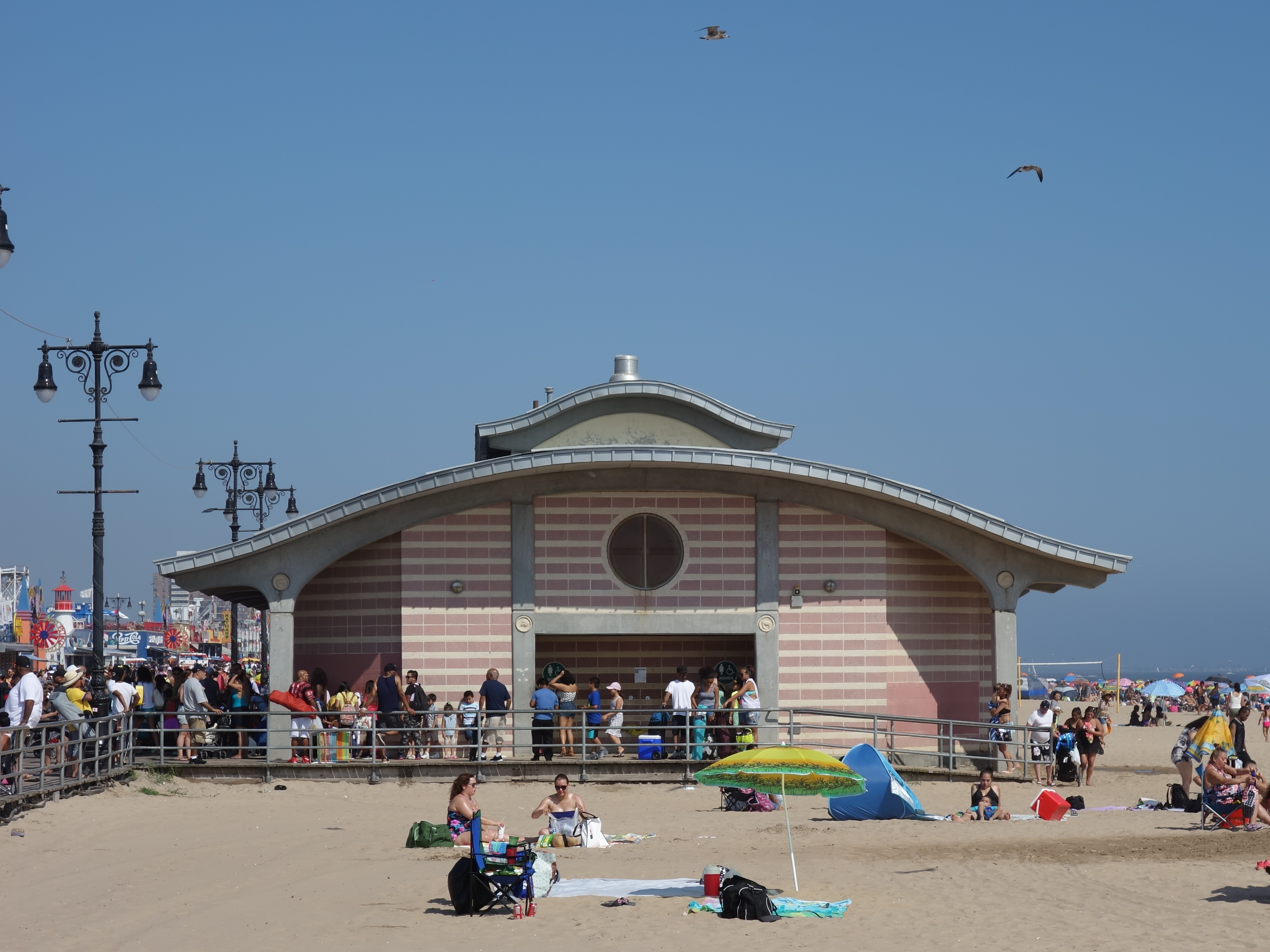 A modern-looking comfort station on the beach of Coney Island, at West 16th Street and the Riegelmann Boardwalk in Coney Island, Brooklyn. Looking east from the foot of the Steeplechase Pier (West 17th Street).